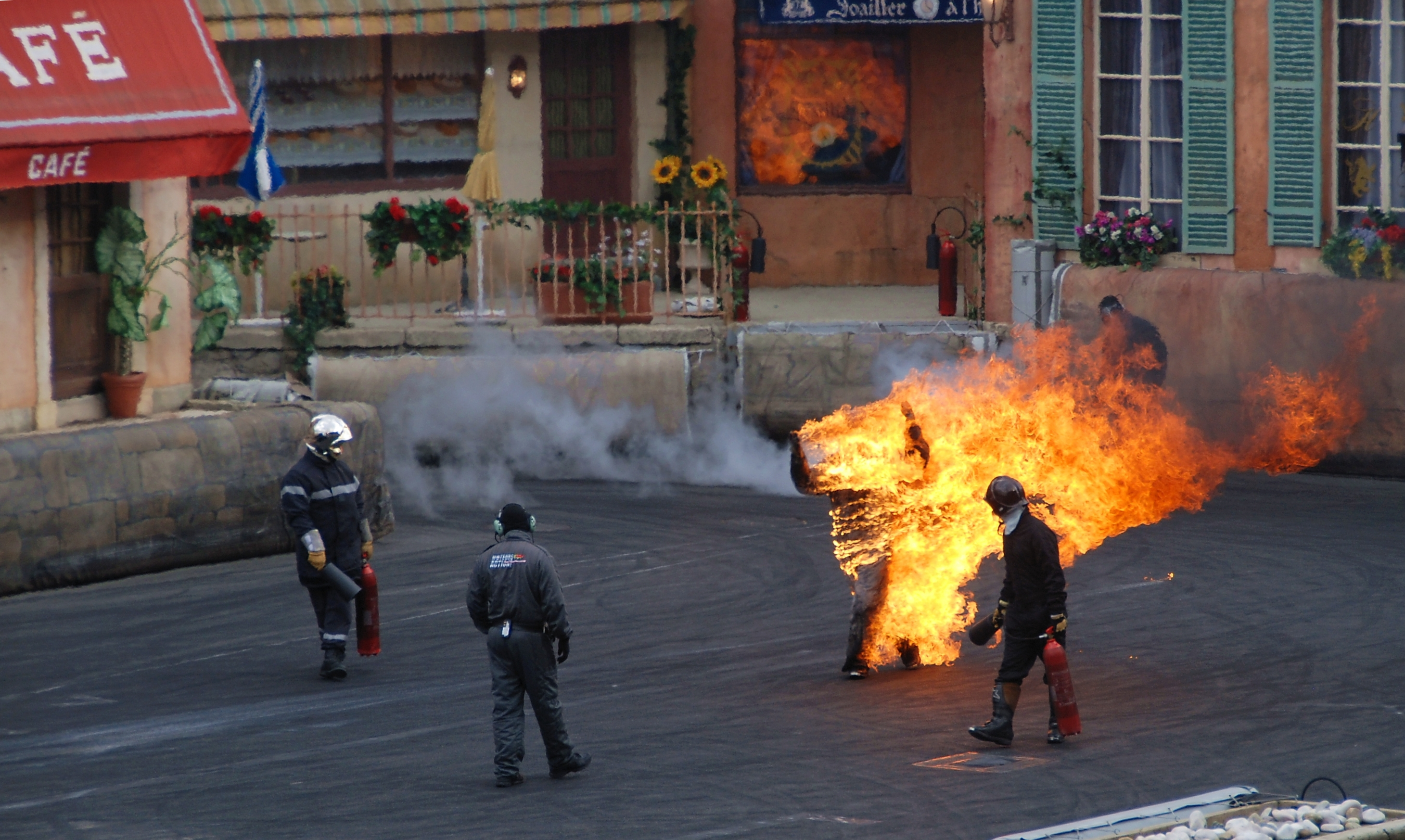 Stunt action at Euro Disney, Paris